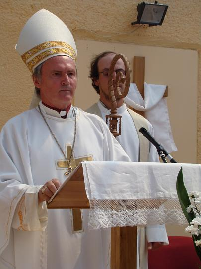 Augustín Bačinský, the first slovak Old Catholic bishop